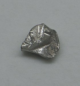 A chunk of palladium